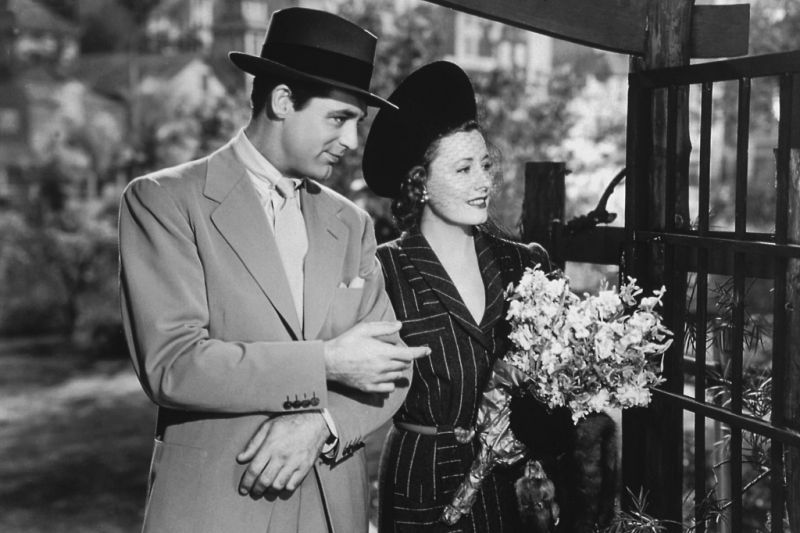 Cary Grant & Irene Dunne in Penny Serenade - cropped screenshot